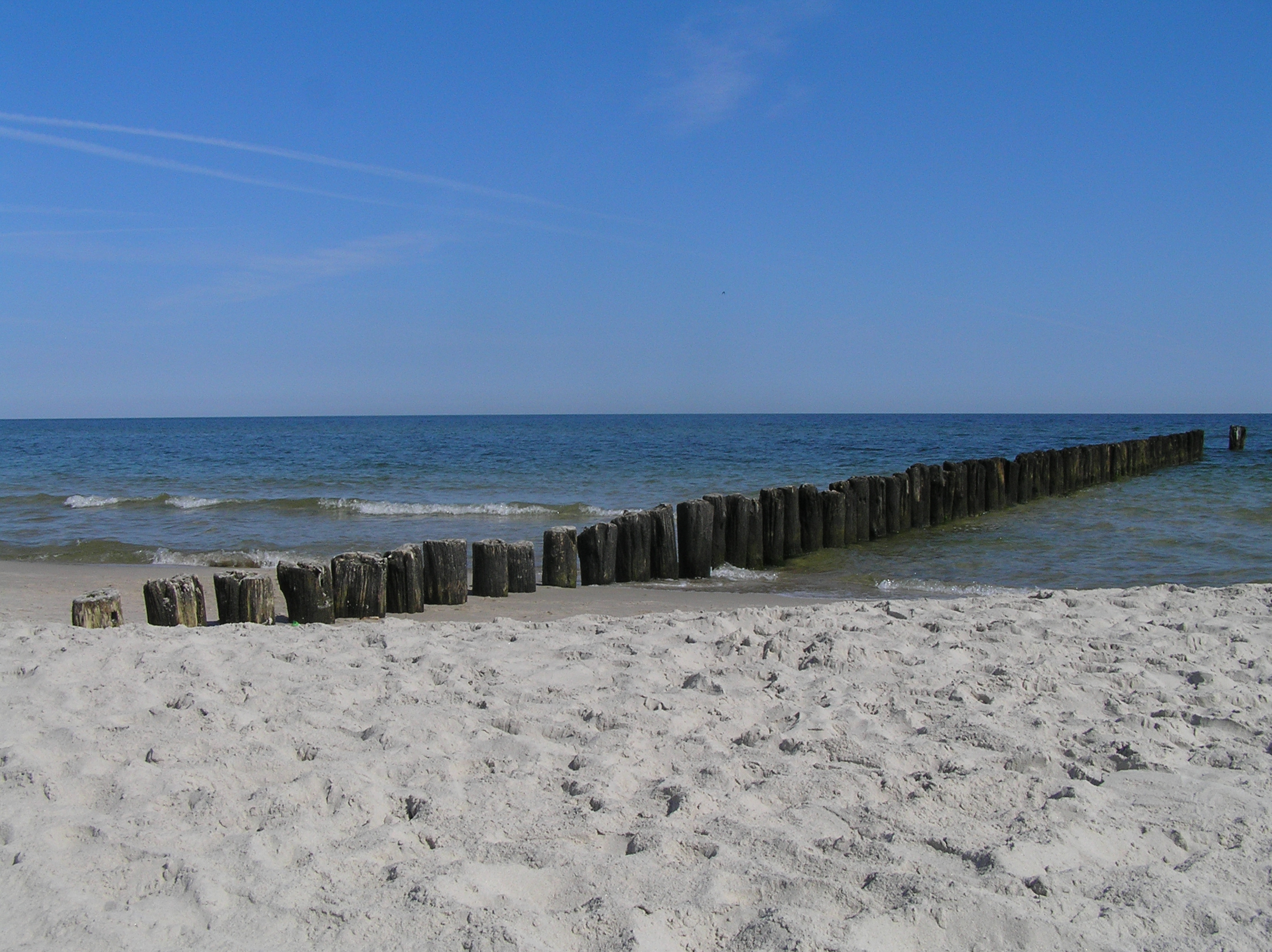 Baltic Sea in Chałupy